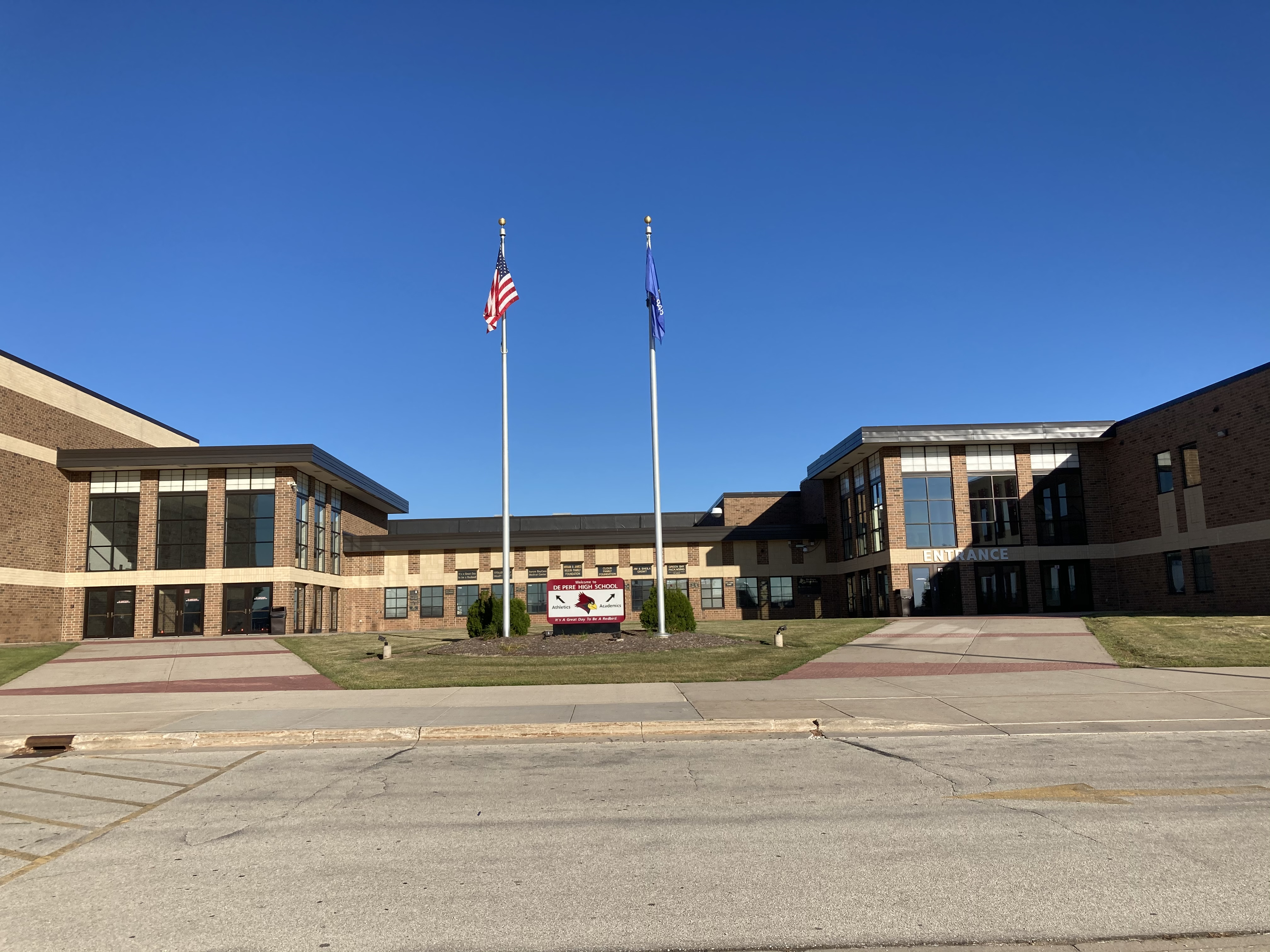 De Pere High School, a public high school in De Pere, Wisconsin, depicted on the morning of August 18, 2020.